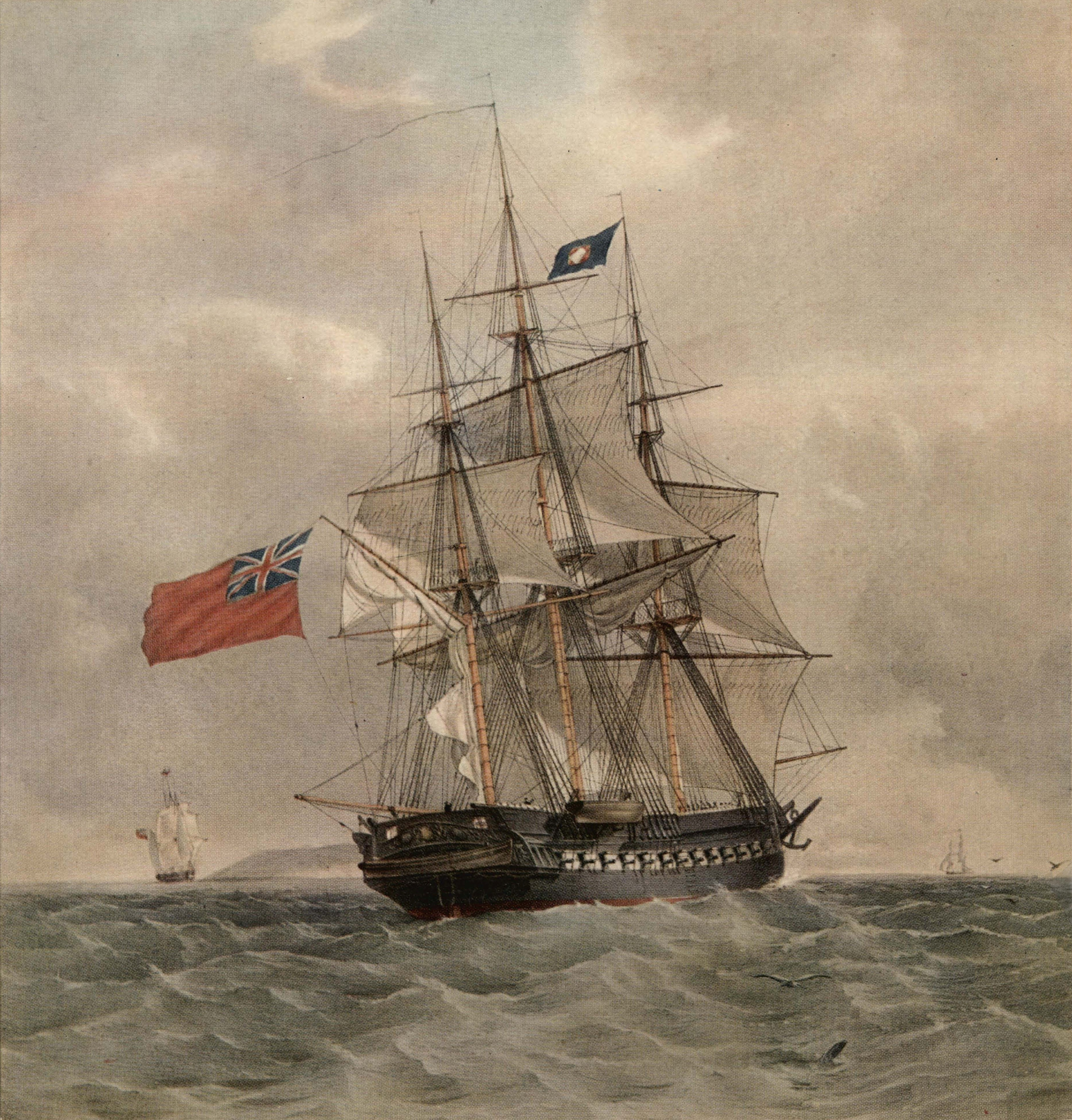 Color lithograph by T. G. Dutton after painting by G.F. St. John There were nine French and British naval vessels named Pomone. This is the frigate built 1805 at Frindsbury.